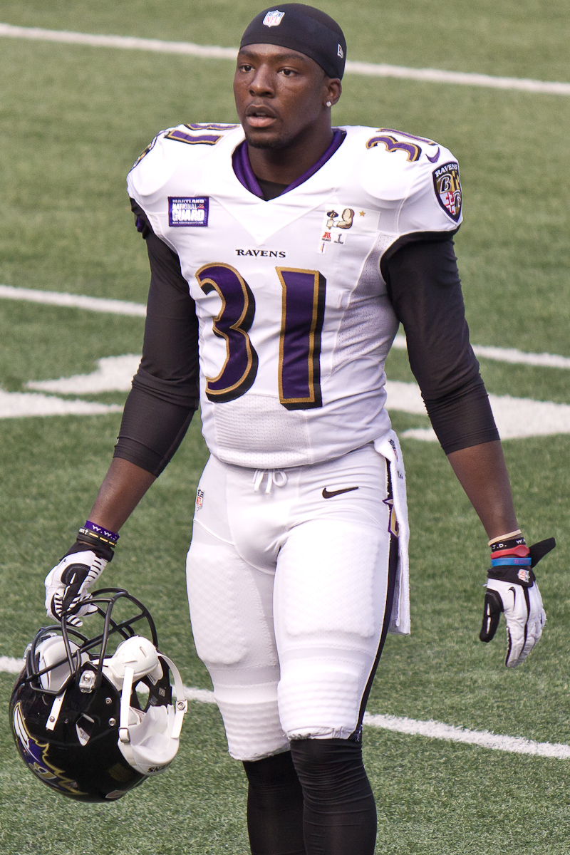 Omar Brown at Ravens Stadium Practice 2013